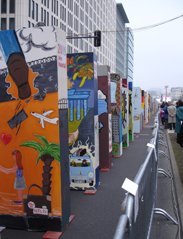 A few of the dominos that were pushed by Jose-Manuel Barroso during the celebration of the 20th anniversary of the Mauerfall in Berlin (2009). This photo was taken on Potsdamer Platz, looking north into Ebertstrasse.